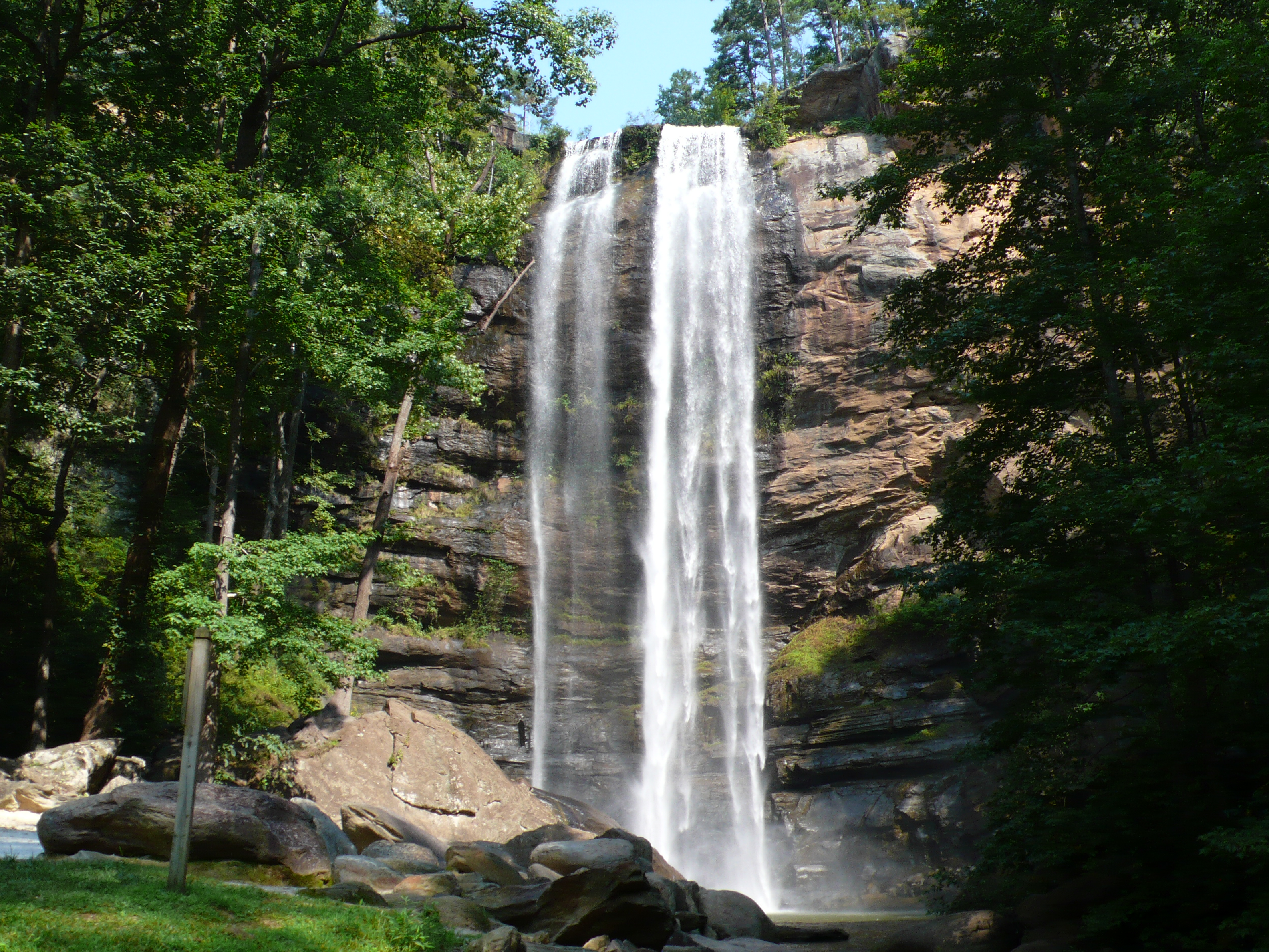 English